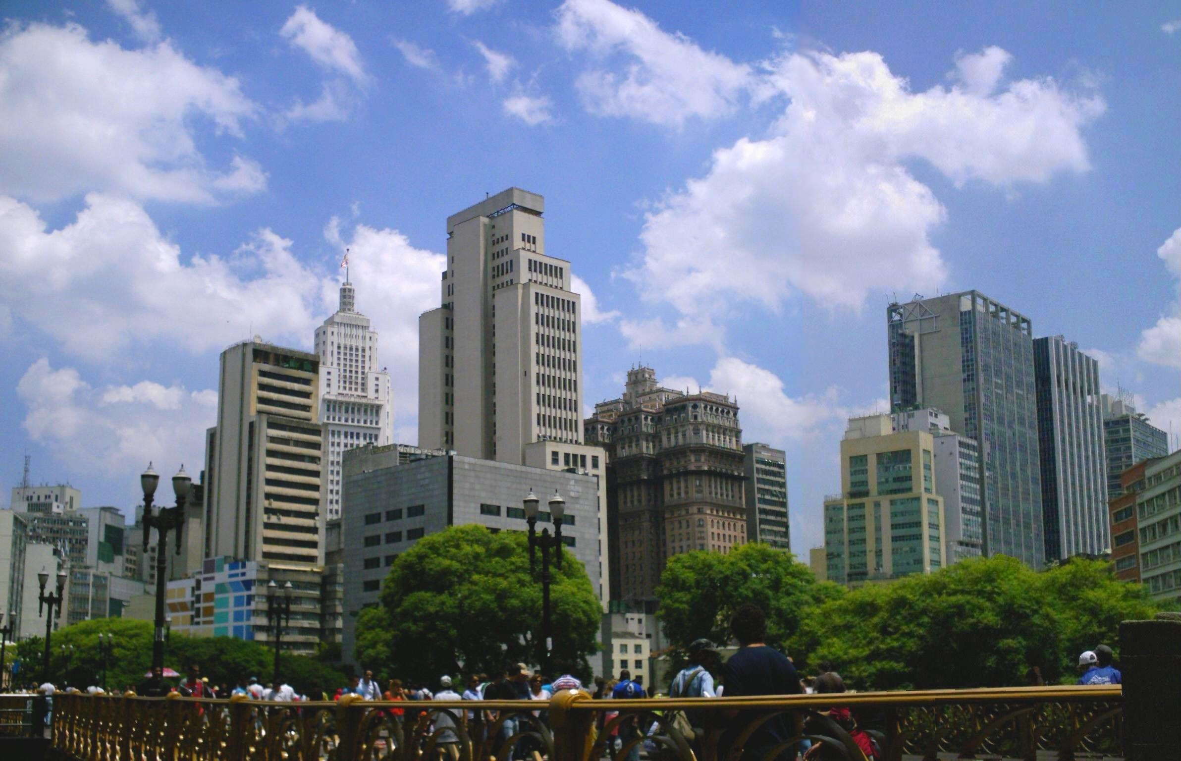 São Paulo Downtown